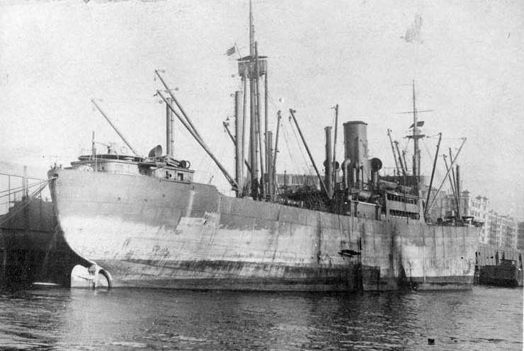 Civilian cargo ship SS Julia Luckenbach prior to her US Navy service as USS Julia Luckenbach (ID-2407).